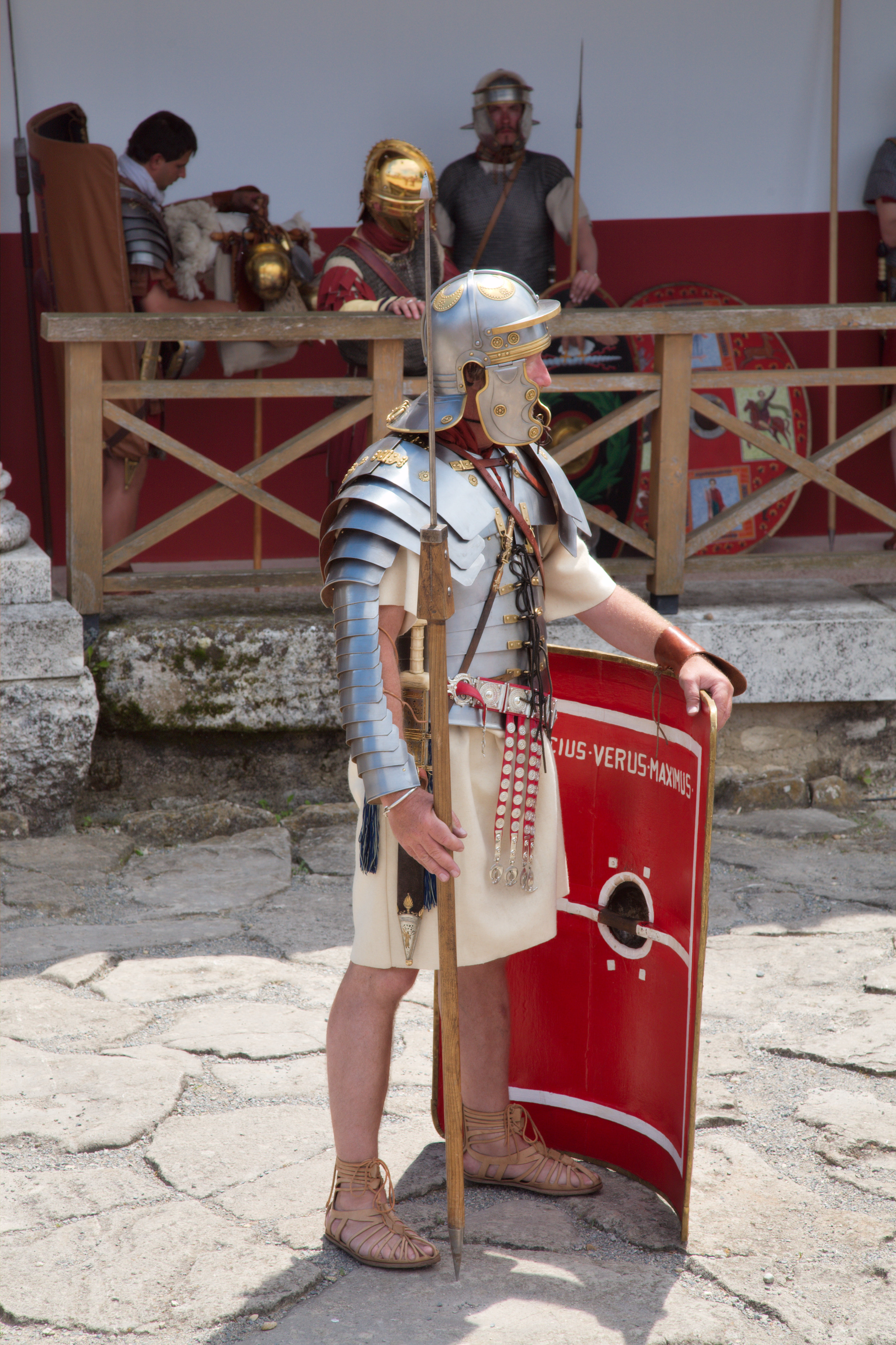 Reenactment of a roman legionaire from second century a.c.